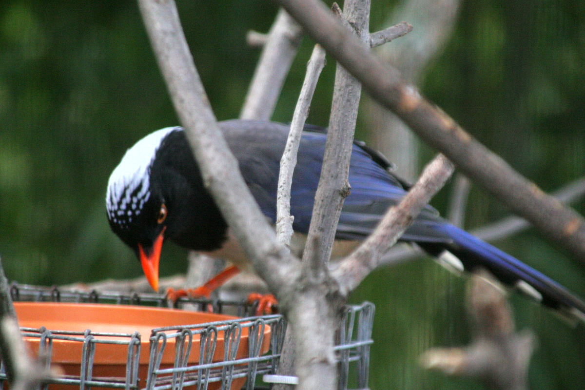 Urocissa erythrorhyncha (Red-billed Blue Magpie), St. Louis Zoo